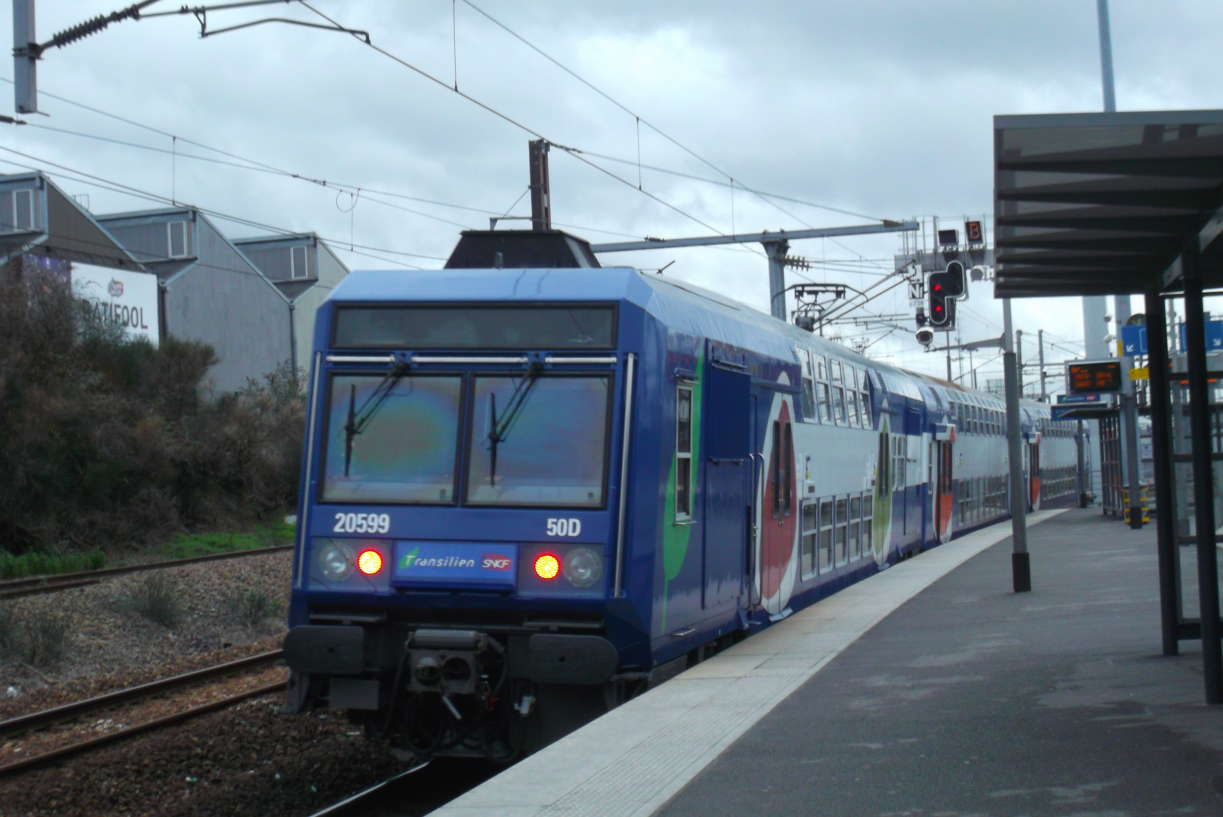 SNCF Z 20599 / Stade de France - Saint-Denis